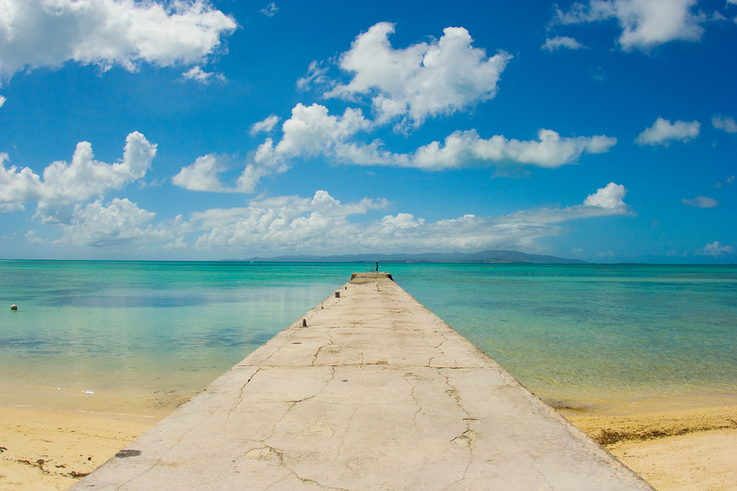 West jetty in Taketomi island, Okinawa, Japan.